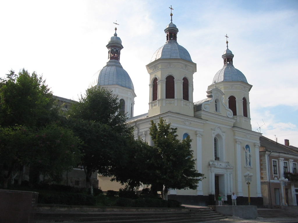 Trinity church in Berezhany